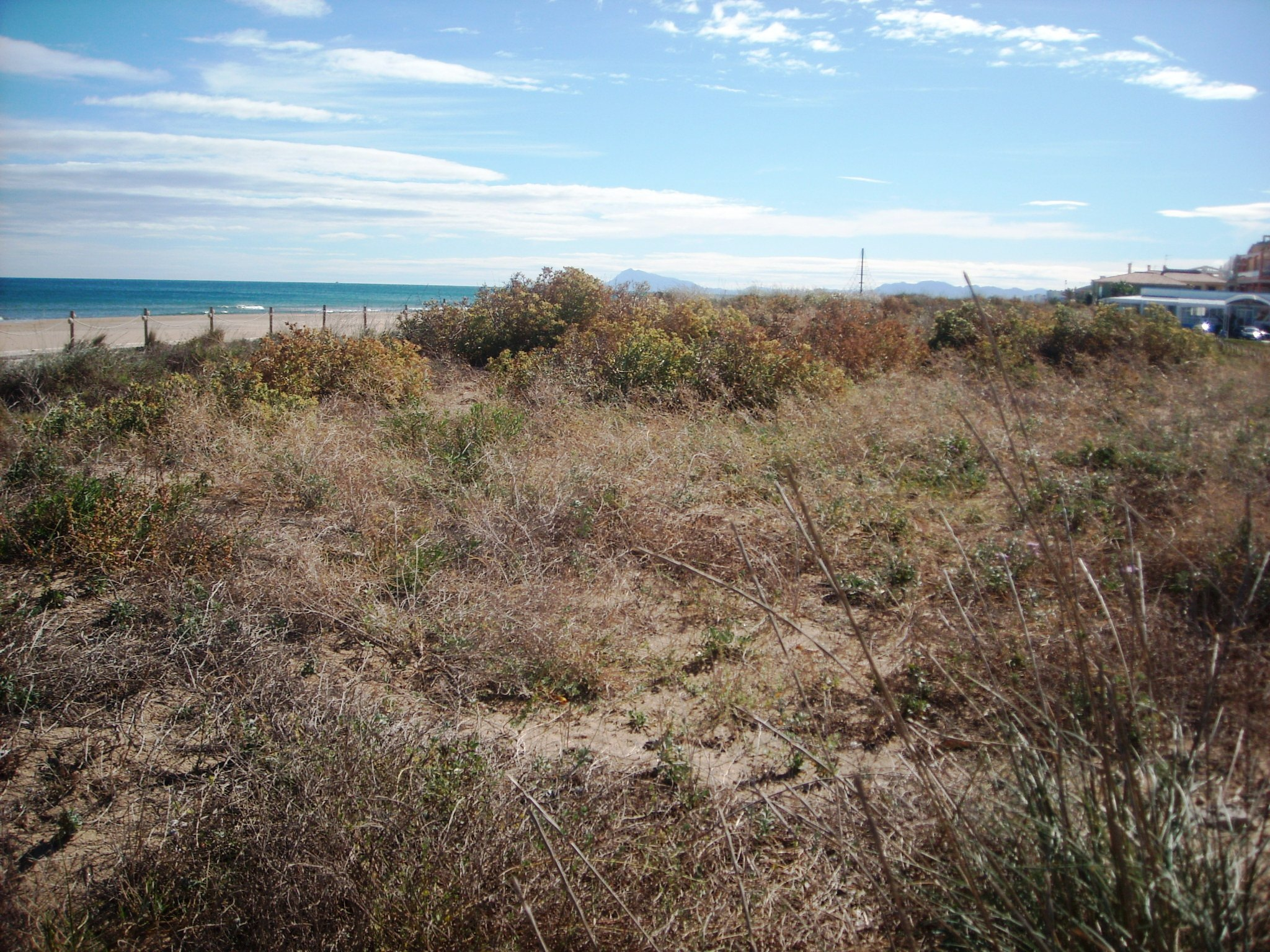 "Mota" or degraded dunes in Platja de Xeraco -Xeraco Beach- País Valencià -Valencian Country-.